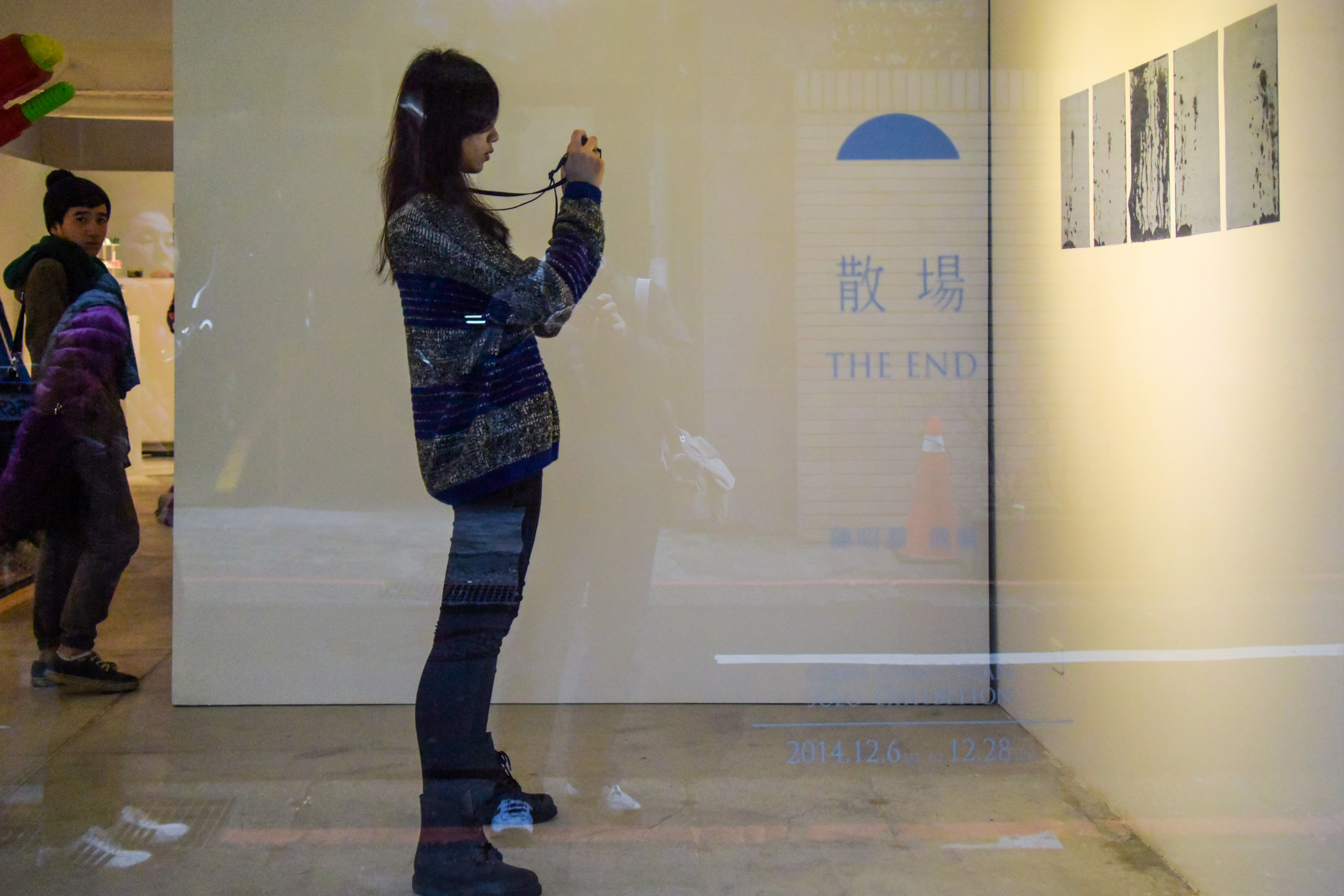 Dec 28, 2014 at 15:50, Taiwan 台北